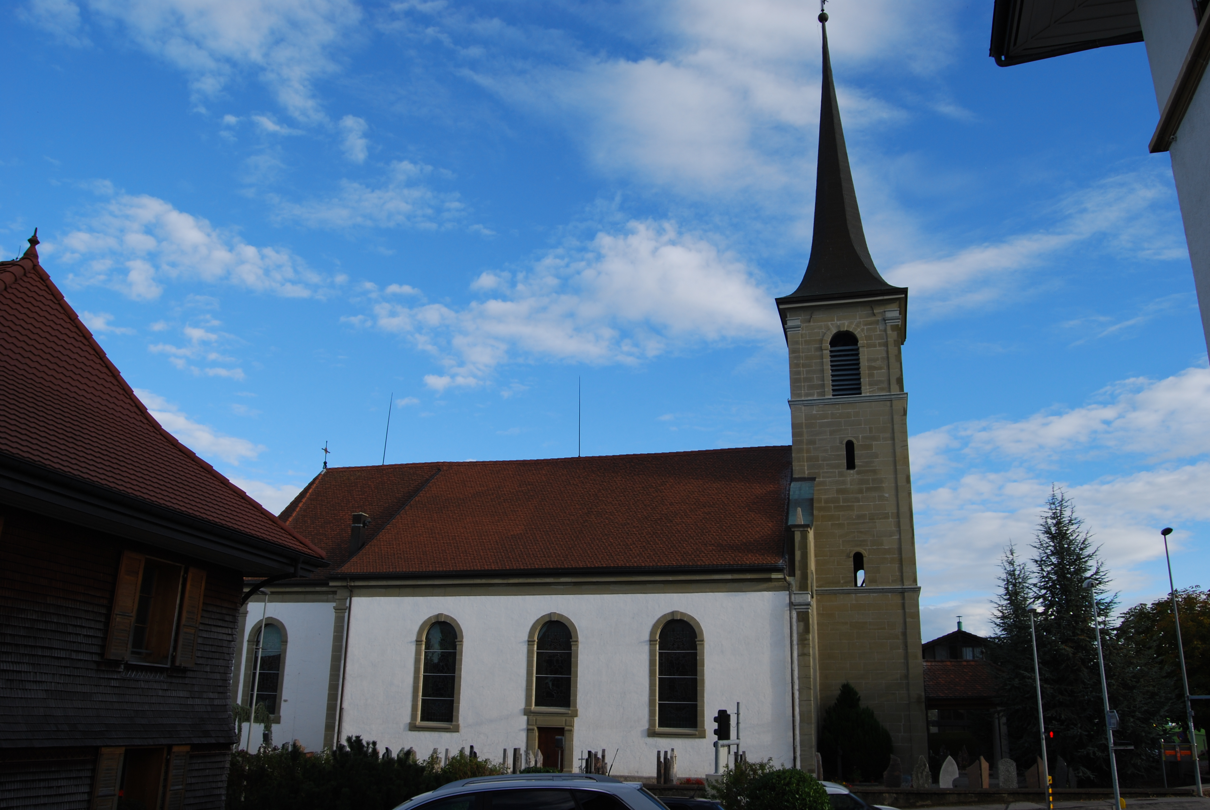 Catholic Church of Neyruz, canton of Fribourg, Switzerland